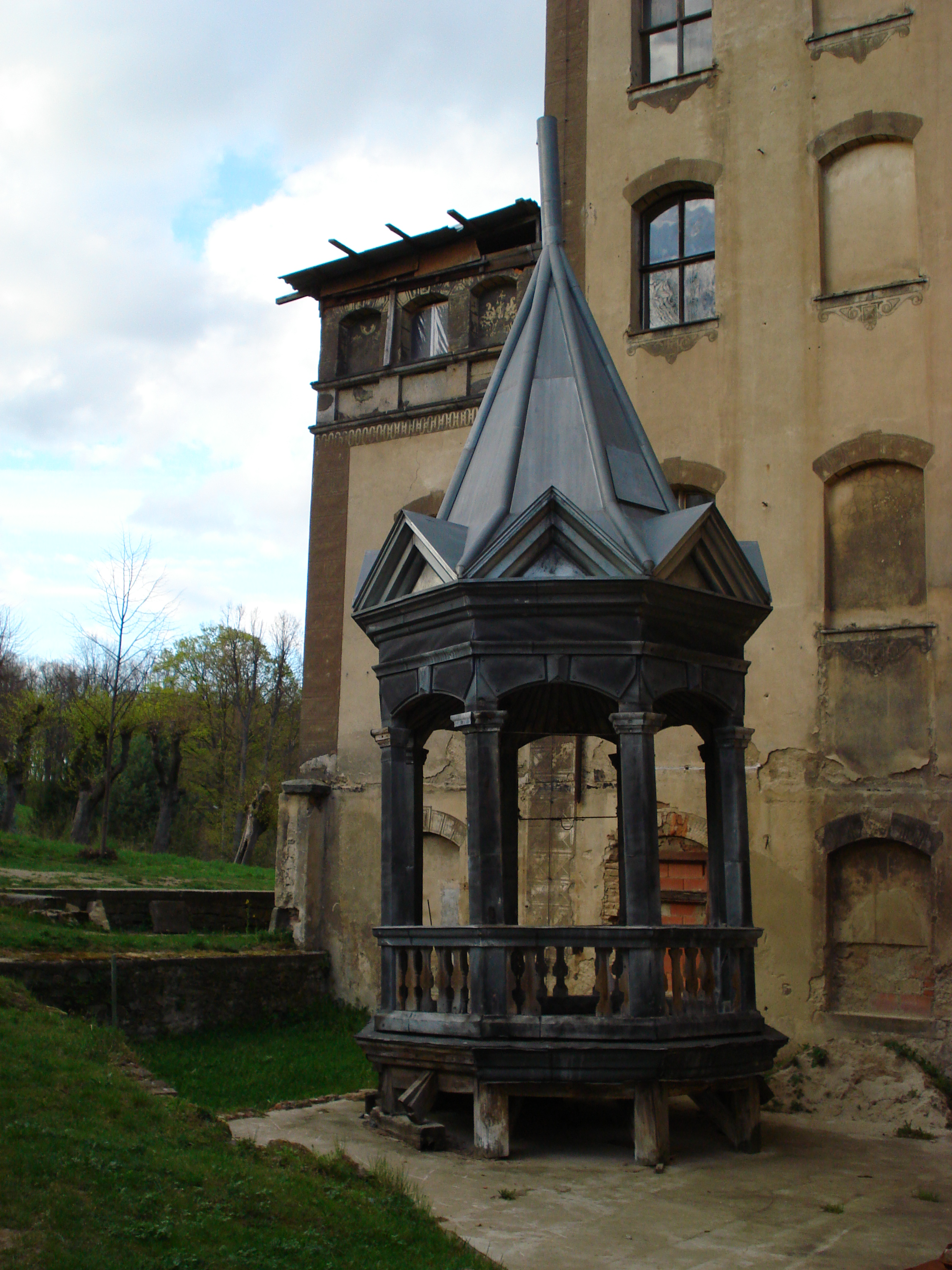 Pinnacle of the castle of Hainewalde